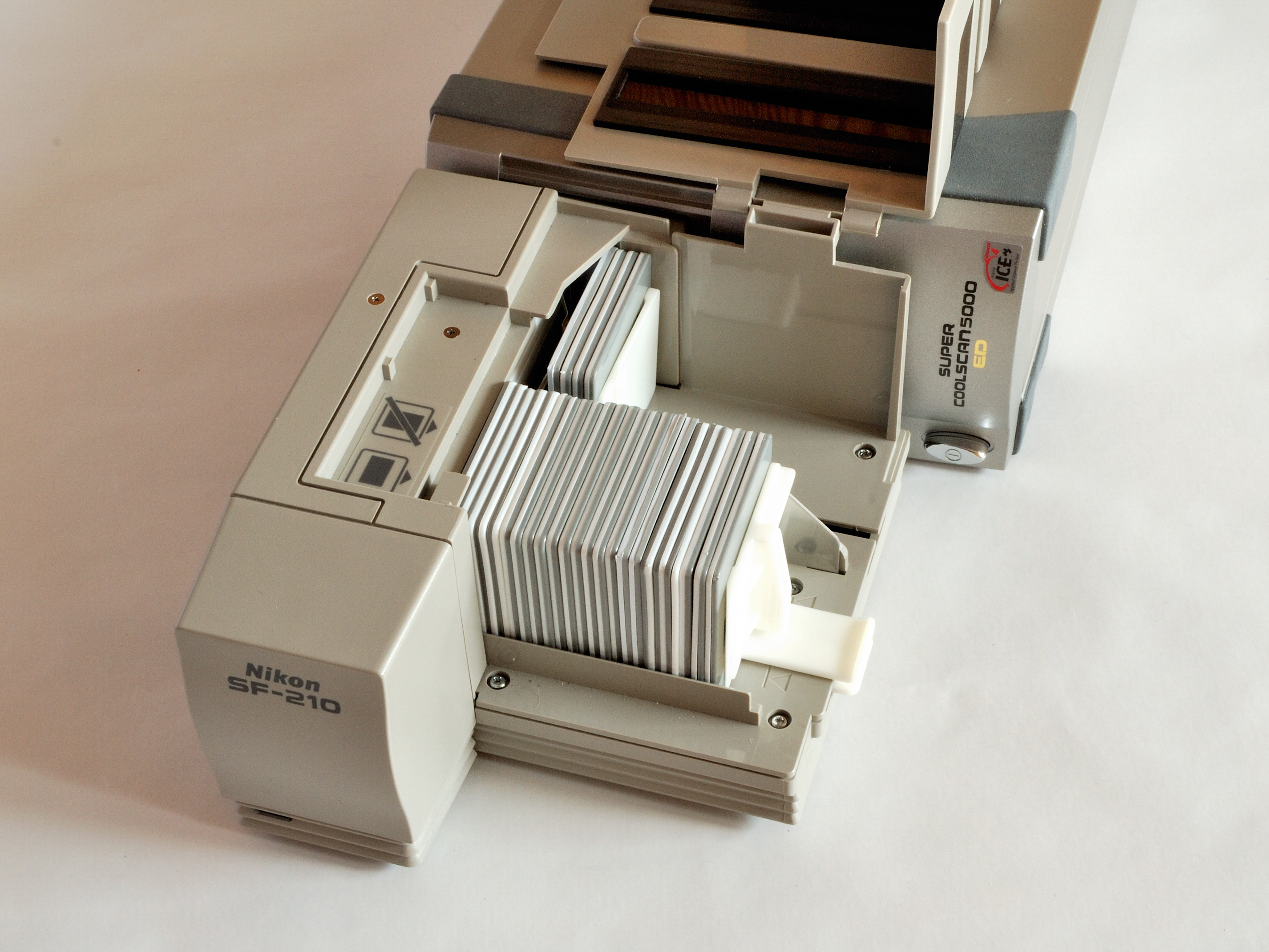 Nikon Coolscan 5000 ED with the slide feeder SF-210